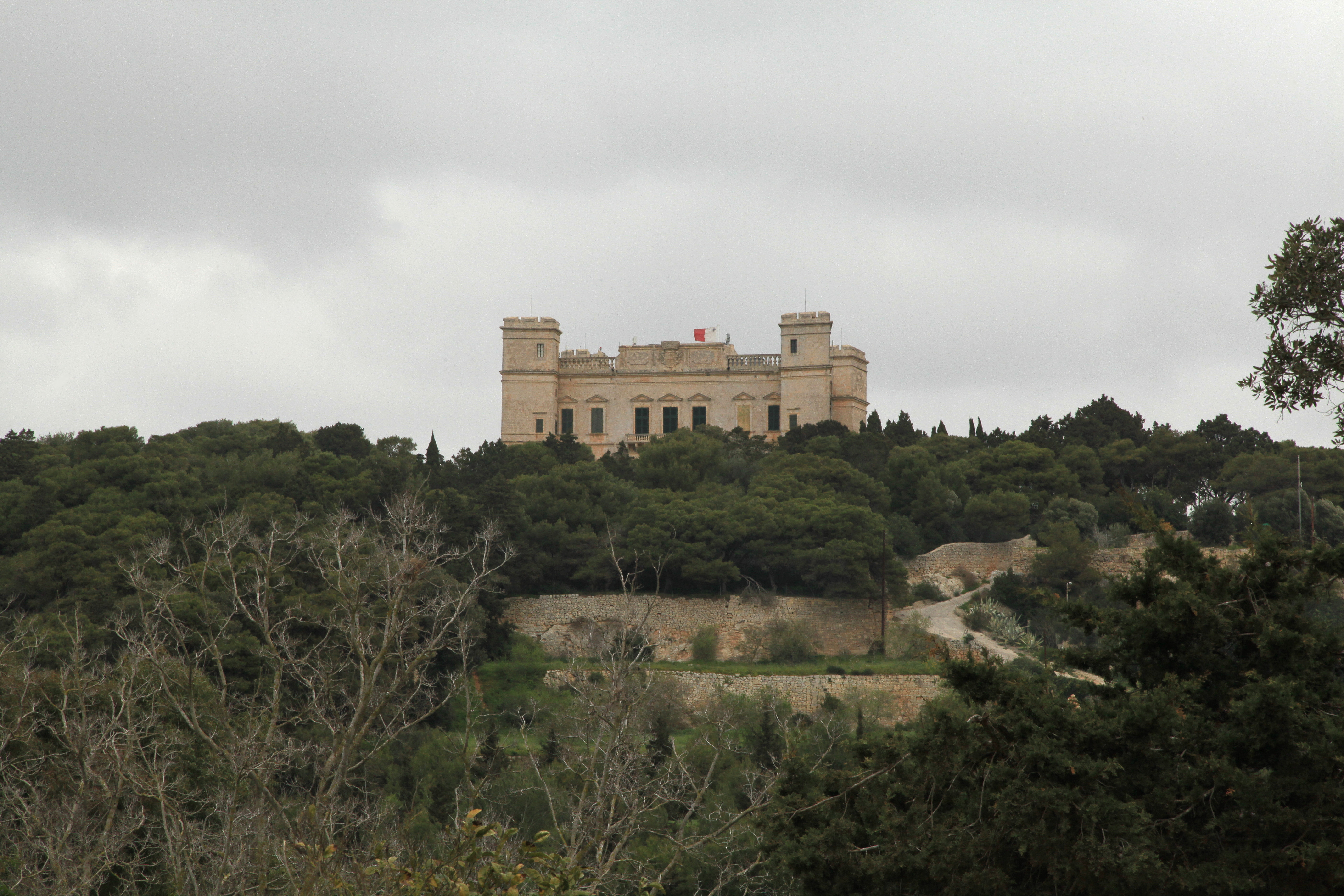 Verdala Palace in the Buskett Gardens, Triq il-Buskett in Siġġiewi, Malta